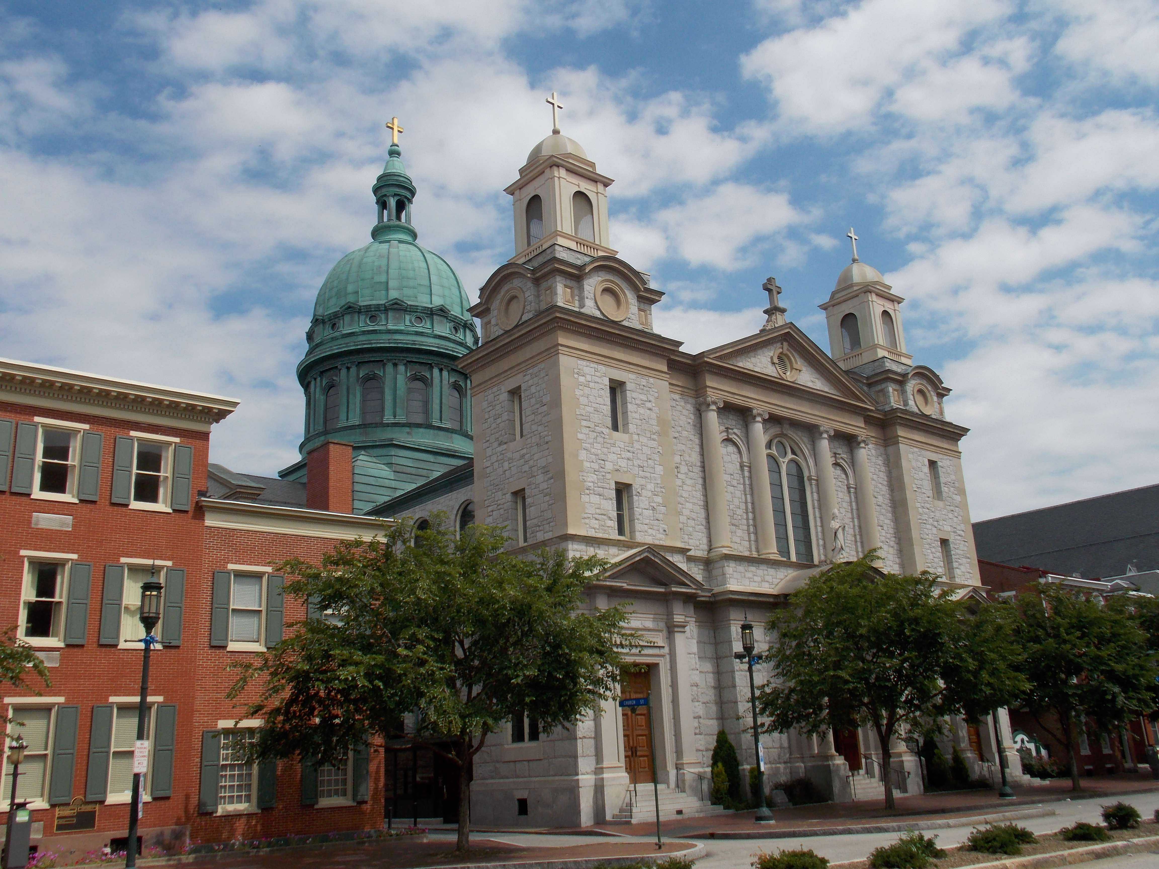 The Cathedral of Saint Patrick in Harrisburg, Pennsylvania is a contributing property in the Harrisburg Historic District.